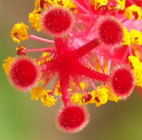 Hibiscusblüte, Stempel und Pollen, Costa Blanca, Spanien